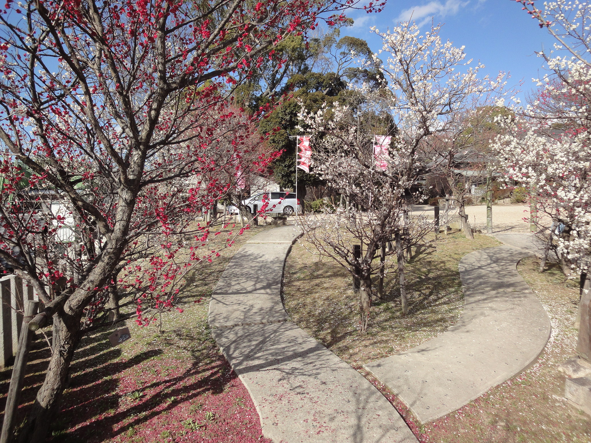 Ume blossoms in Okazaki Tenman-gu.